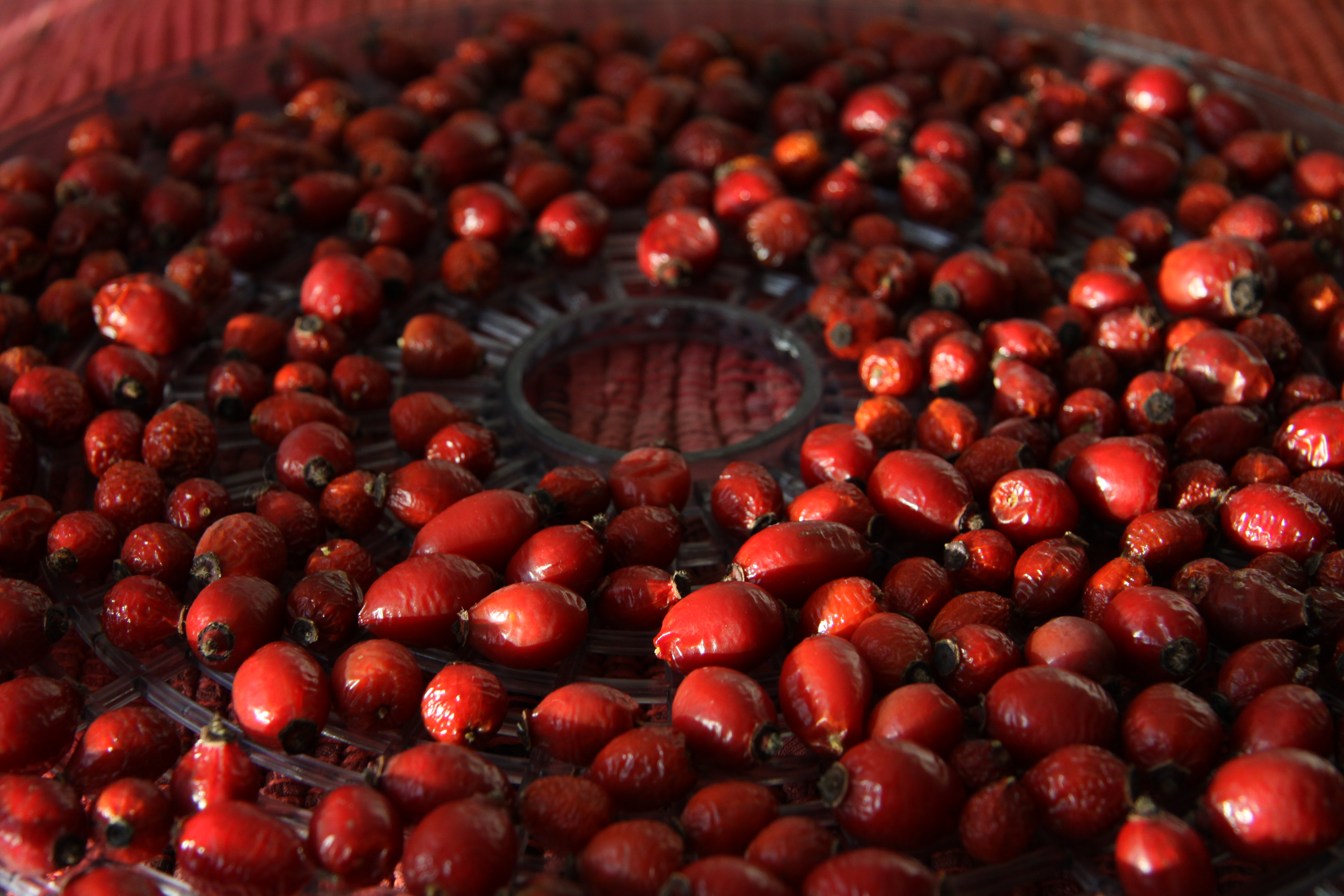 Drying of Rose hips for tea.